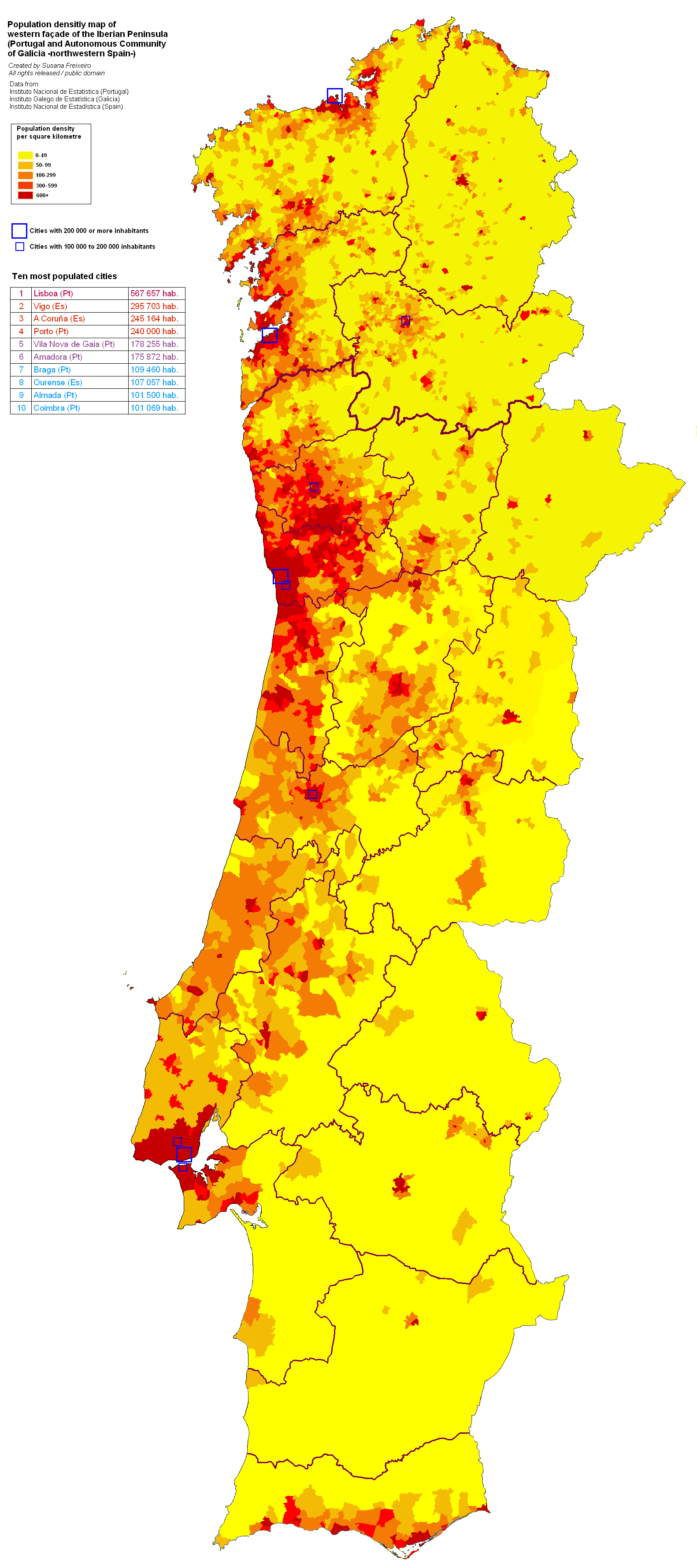 Population density of the western façade of the Iberian Peninsula (Portugal and the Autonomous Community of Galicia -northwestern Spain-)